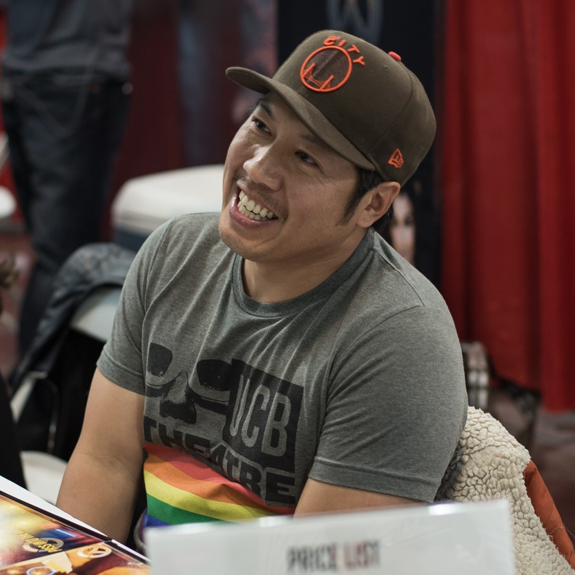 Feodor Chin at Comic Con Revolution 2017 - Overwatch Panel